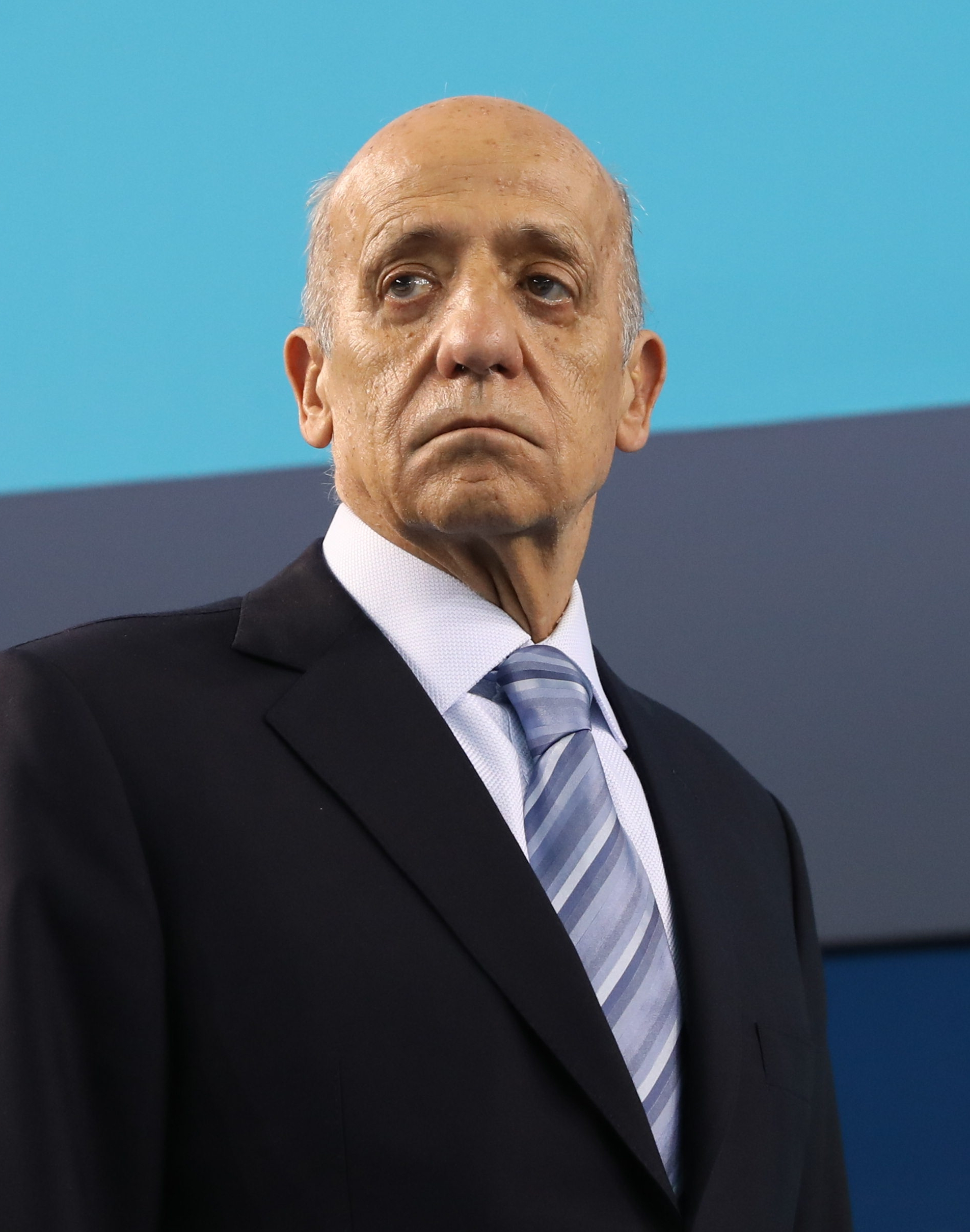 Diving, Girls 10m platform: Victory ceremony